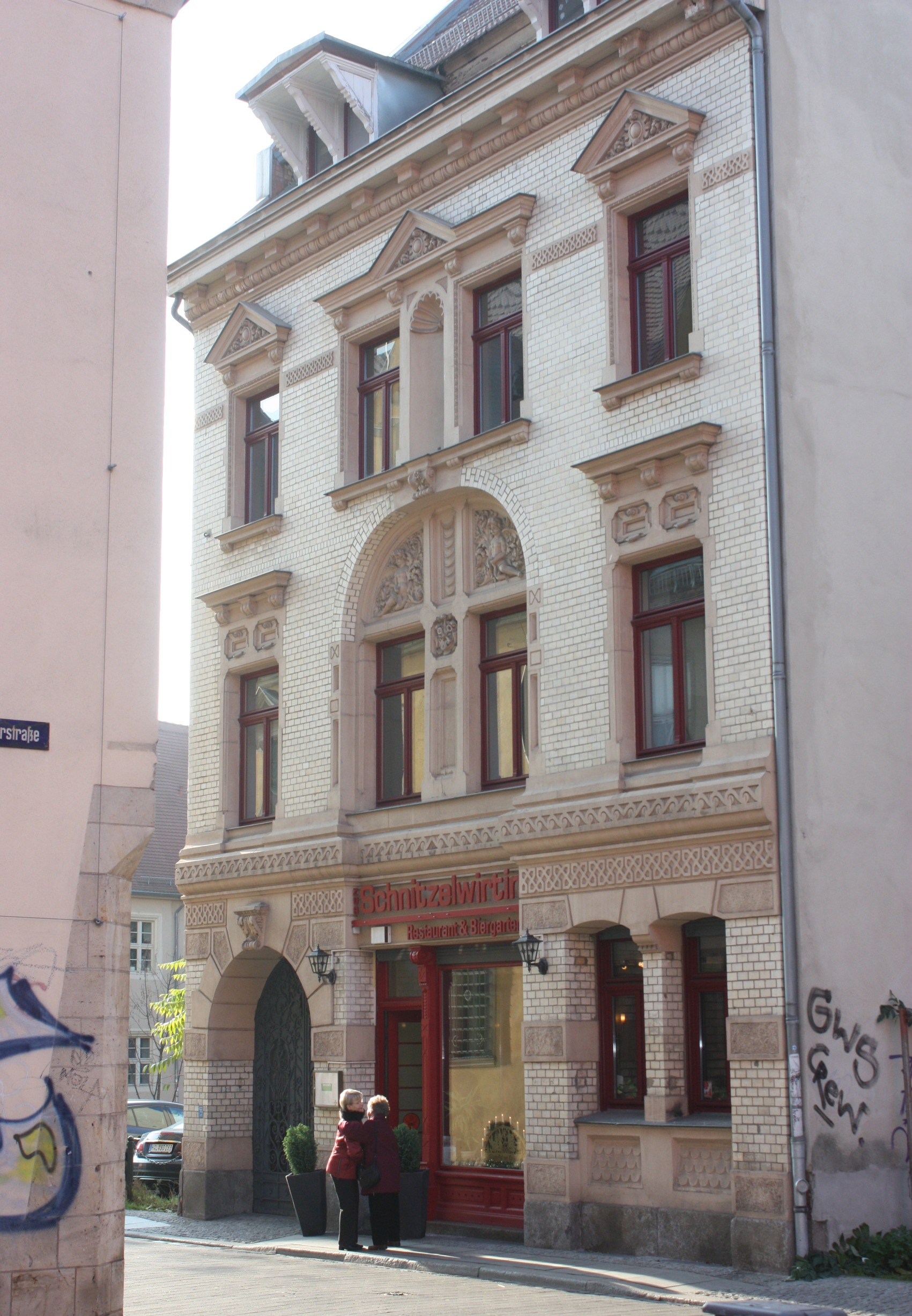 Halle (Saale), das Restaurant "Schnitzelwirtin"